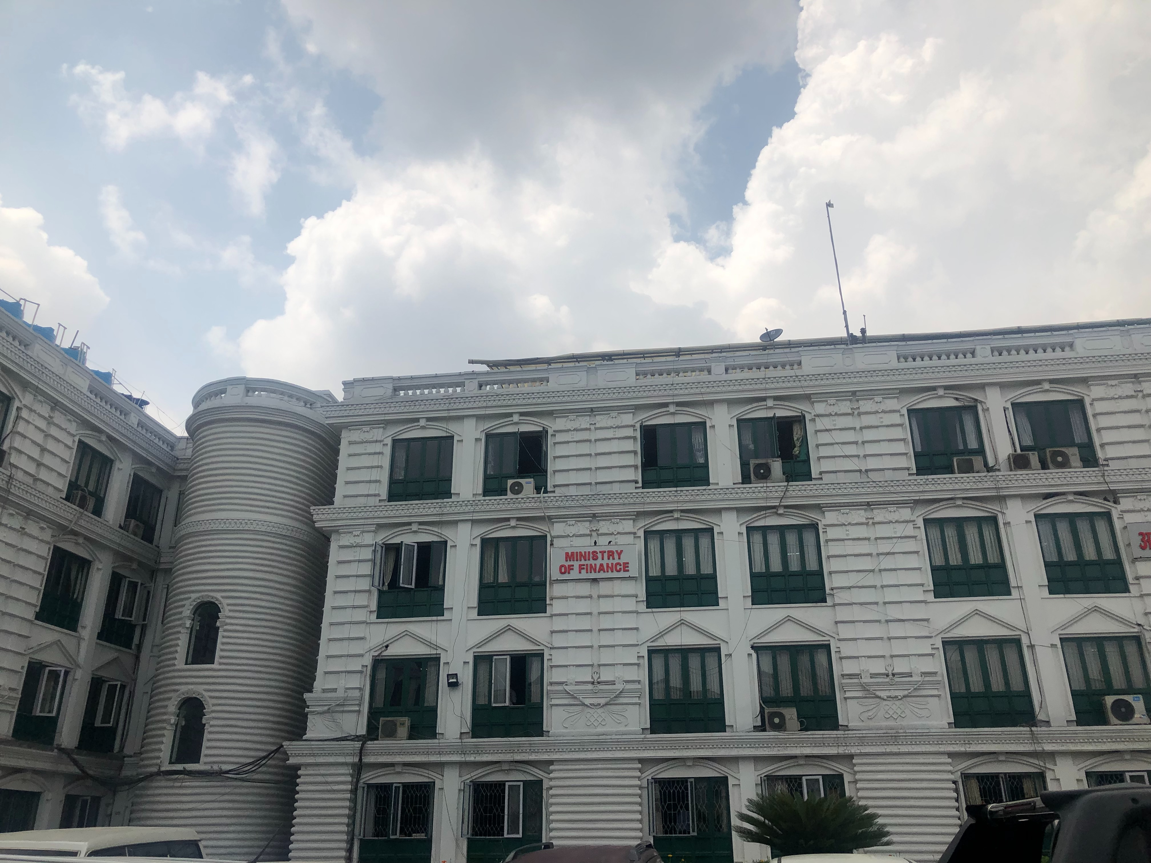 Finance ministry of Nepal